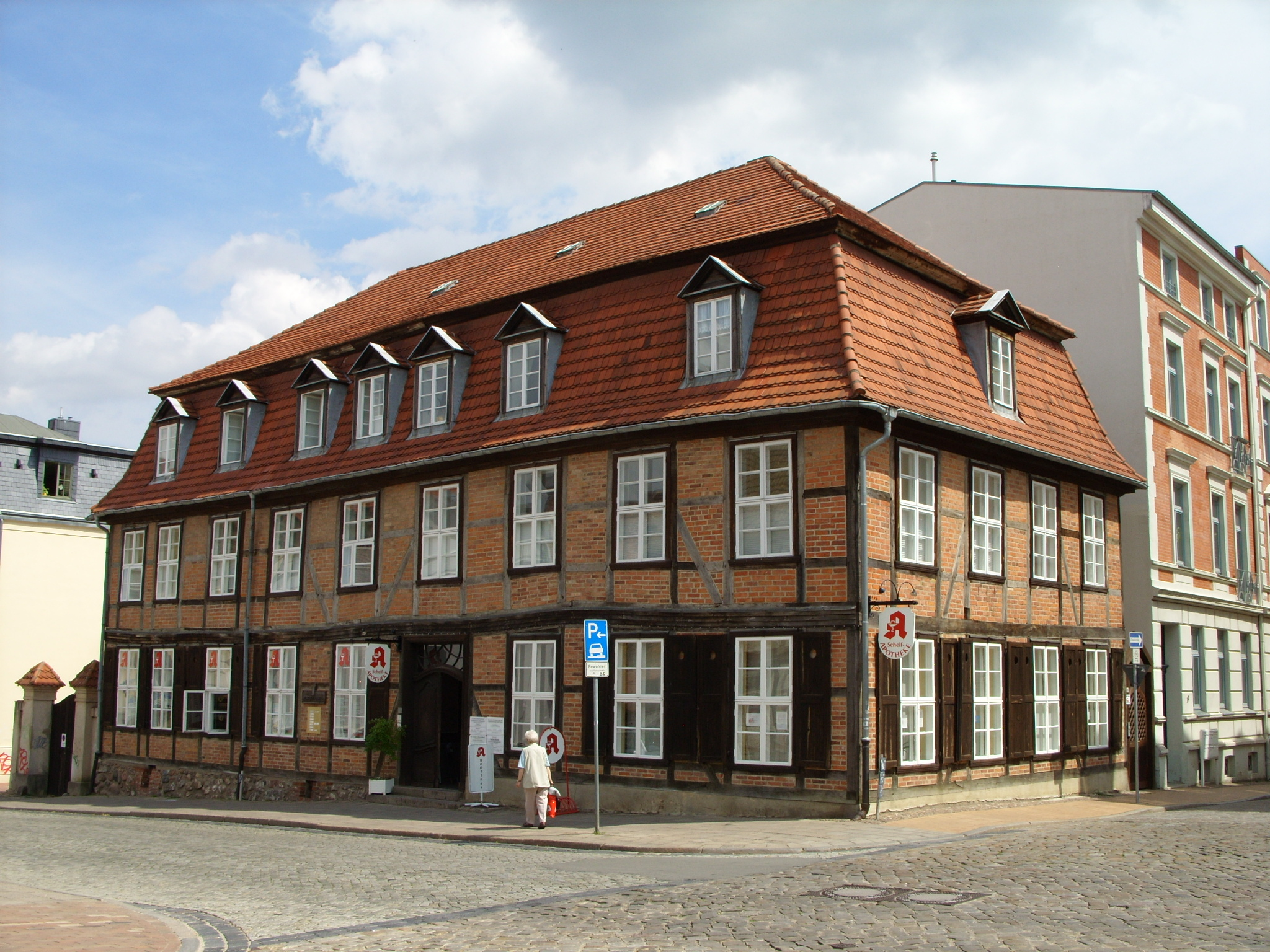 Edge house Taubenstraße 19/Schelfstraße in Schwerin, Mecklenburg-Vorpommern, Germany. Timber framing house with drugstore Schelfapotheke on ground floor.